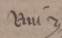 Rio Elba